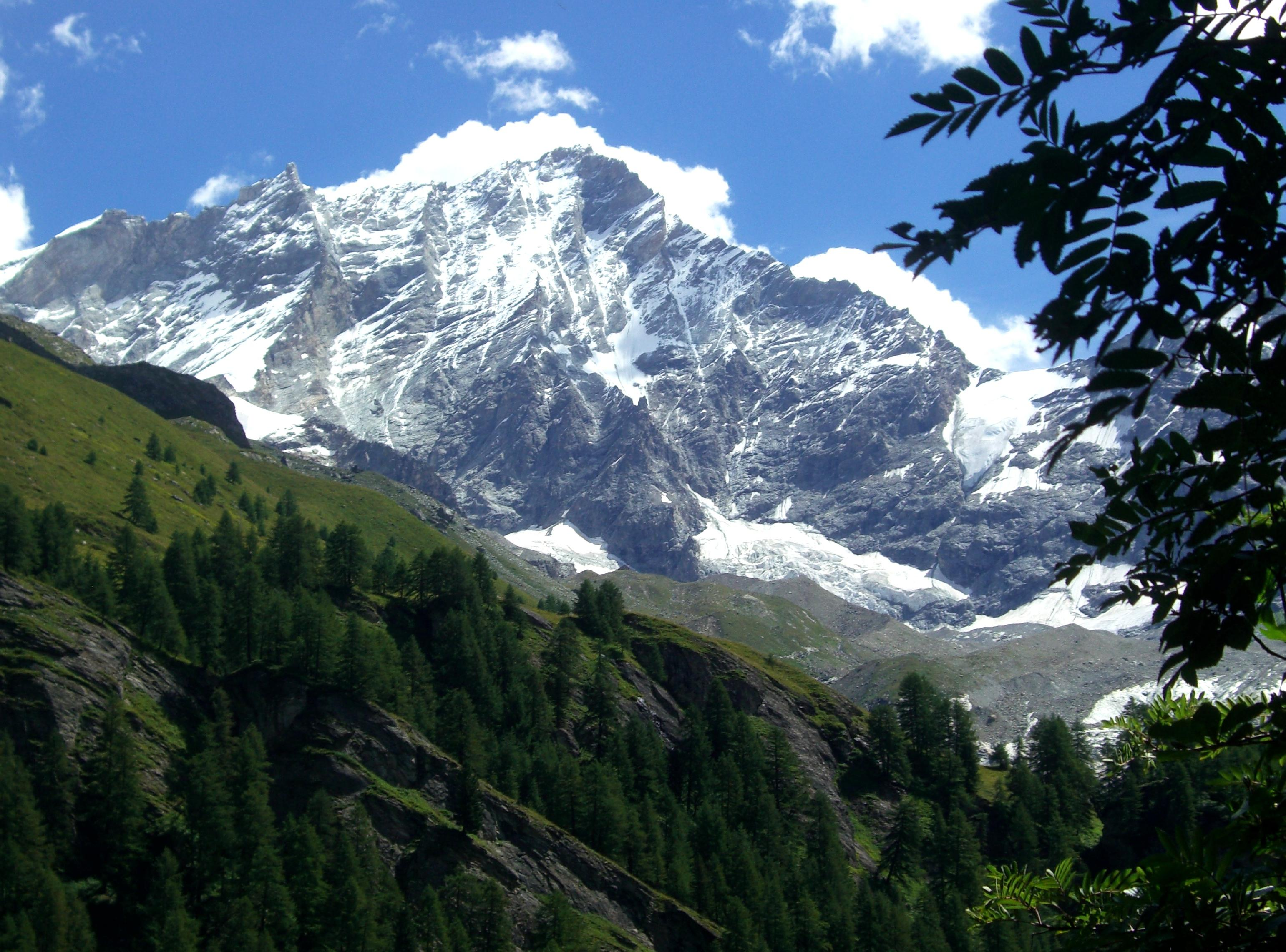 From the west side.